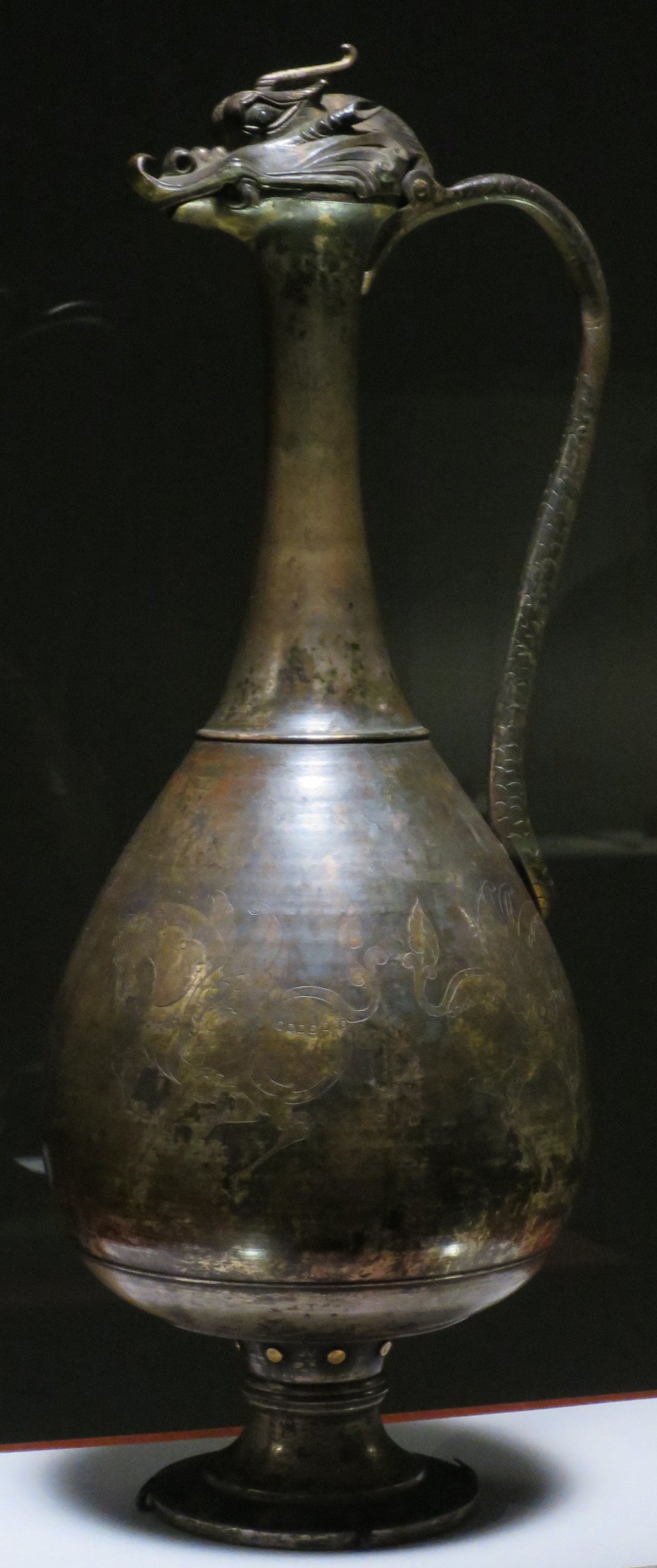 Dragon-head Pitcher with Pegasus pattern incised, bronze gilt of gold and silver, 49.9cm height, Asuka period, 7th century, former Horyu-ji Temple treasures, Tokyo National Museum, Tokyo, Japan